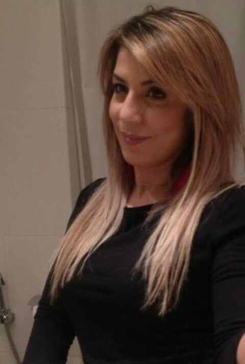 Salima Souakri in November 25, 2016 in Tunis